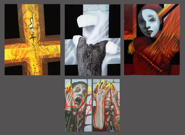 Painting by German artist Yolanda Feindura titled Trauma (2003)